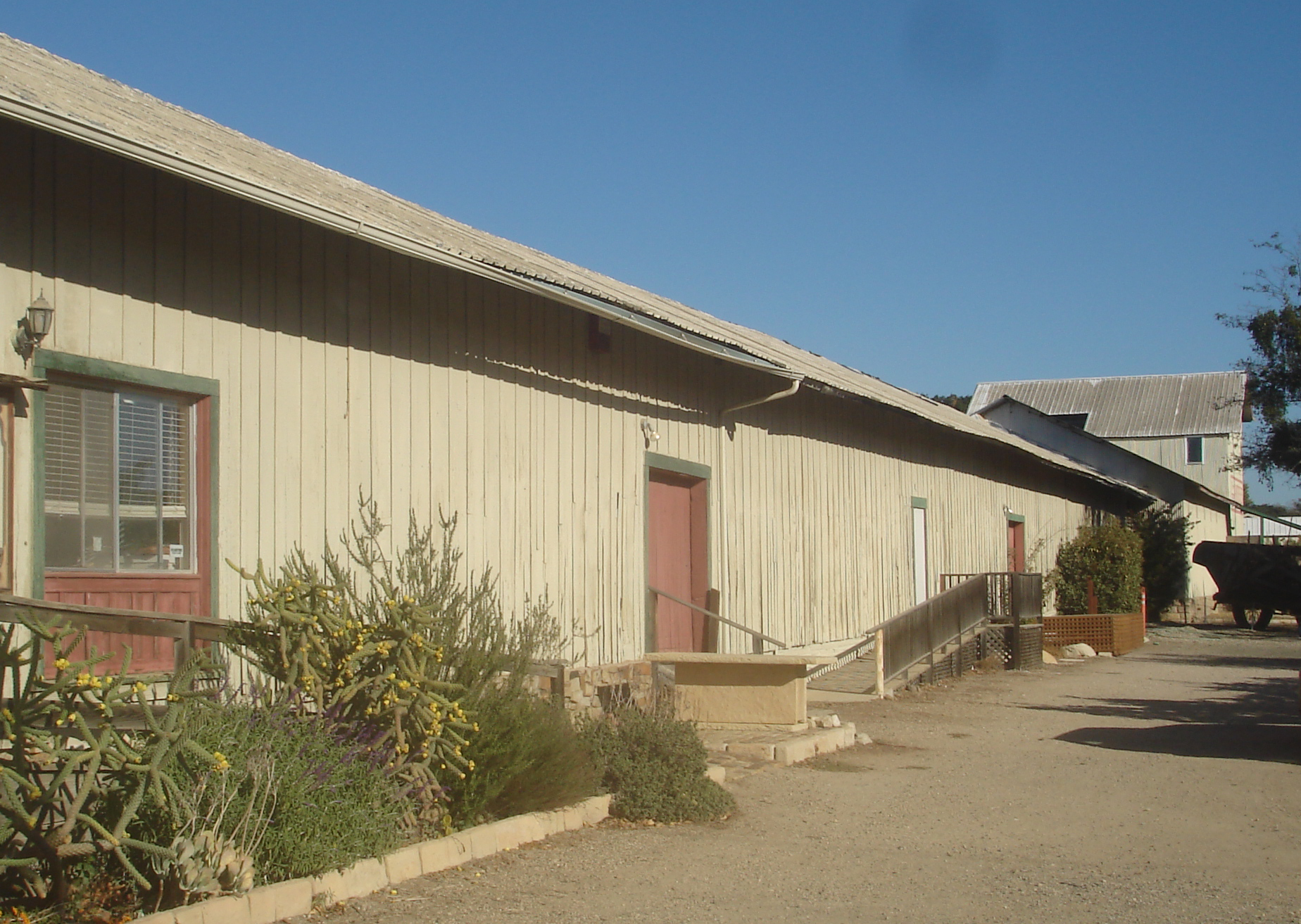 Former Pacific Coast Railroad freight shed in Los Alamos, California